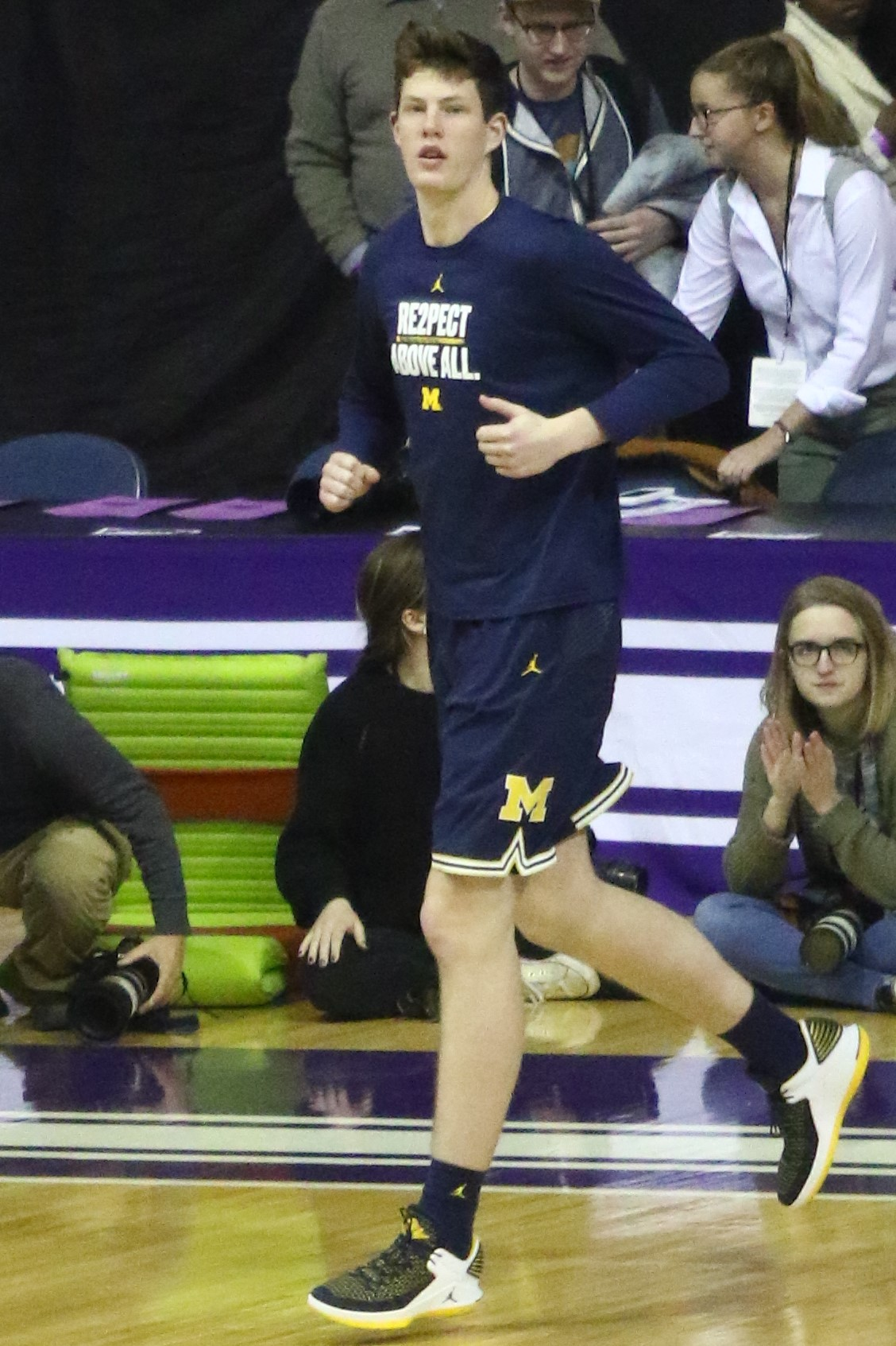 Jon Teske playing for the w:2017–18 Michigan Wolverines men's basketball team at Allstate Arena